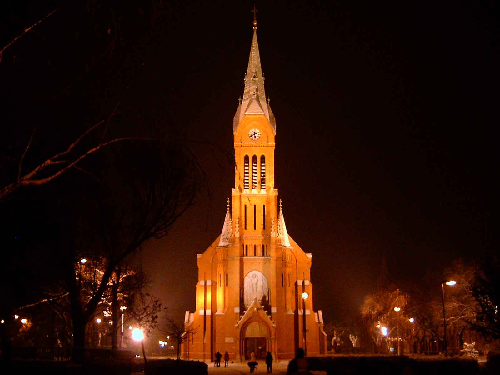 Roman-catholic church Nagyboldogasszony (19th district in Budapest)